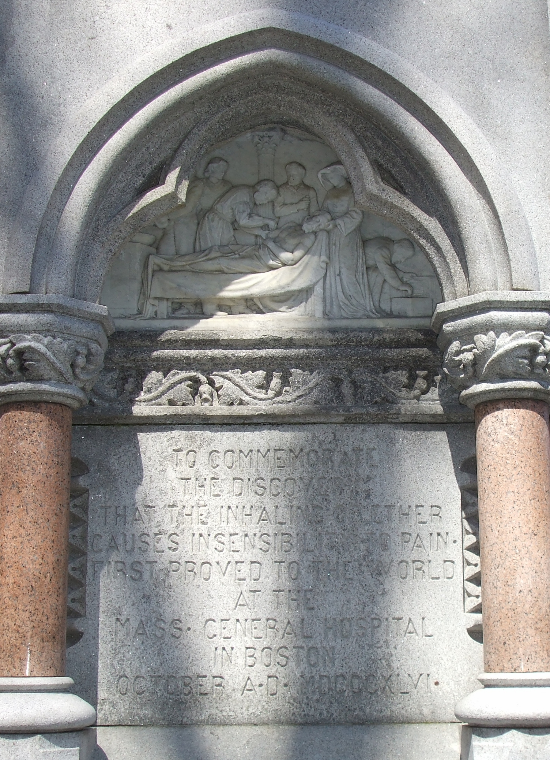 Monument commemorating the alleged first discovery of ether's anesthetic use in Boston.